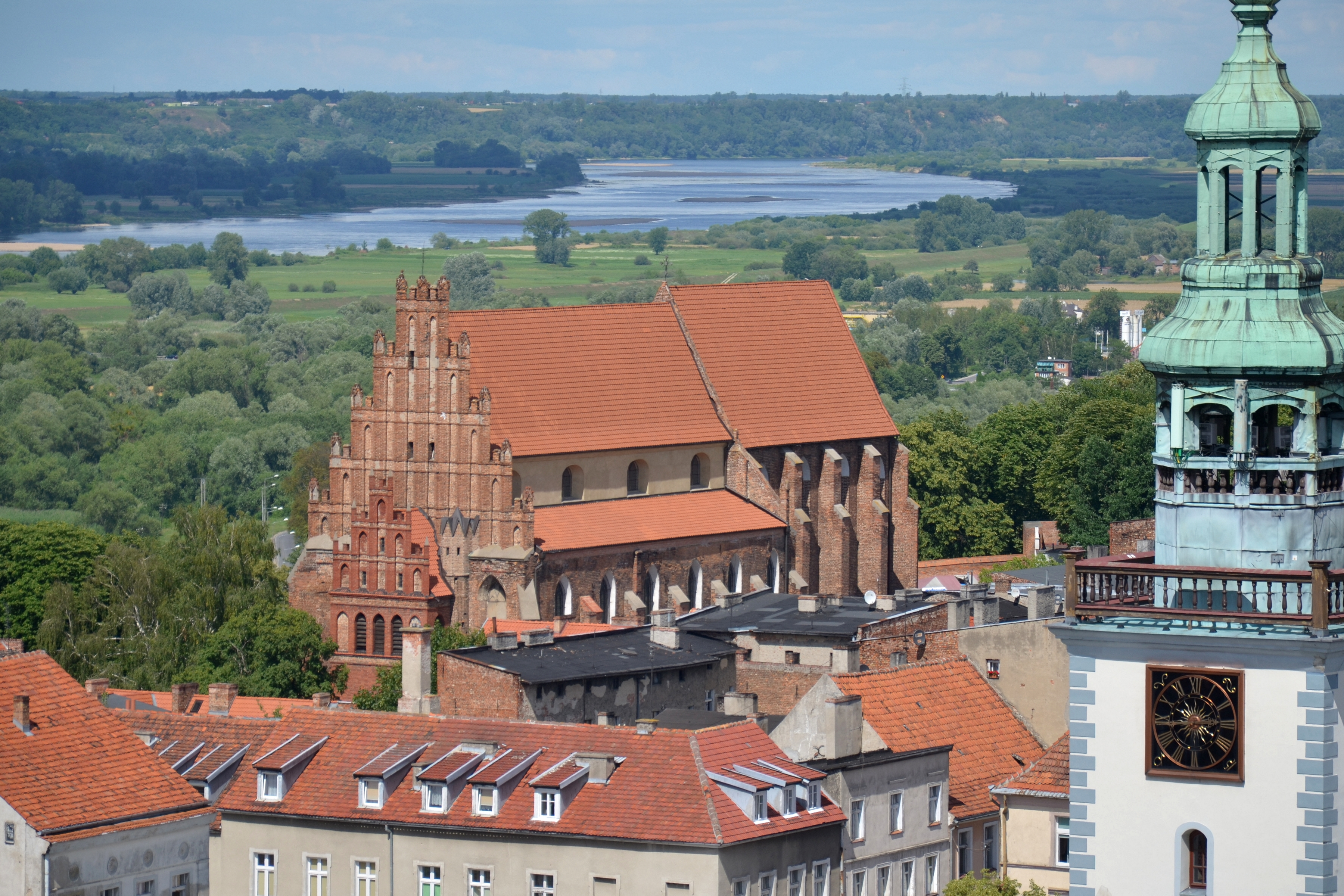 Chełmno, church of St. Peter and St. Paul, view from the tower of Assumption of the Blessed Virgin Mary church